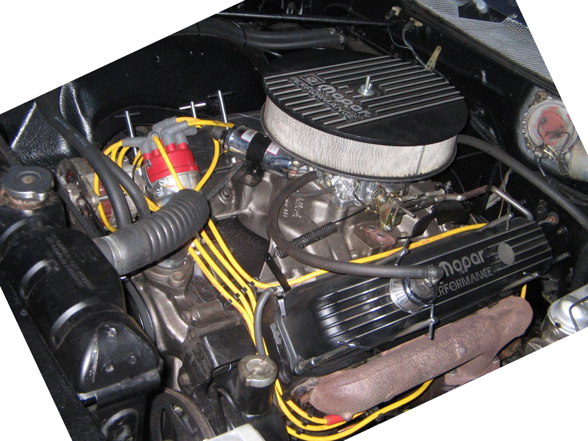 Engine room of a 60's car at Power Big Meet